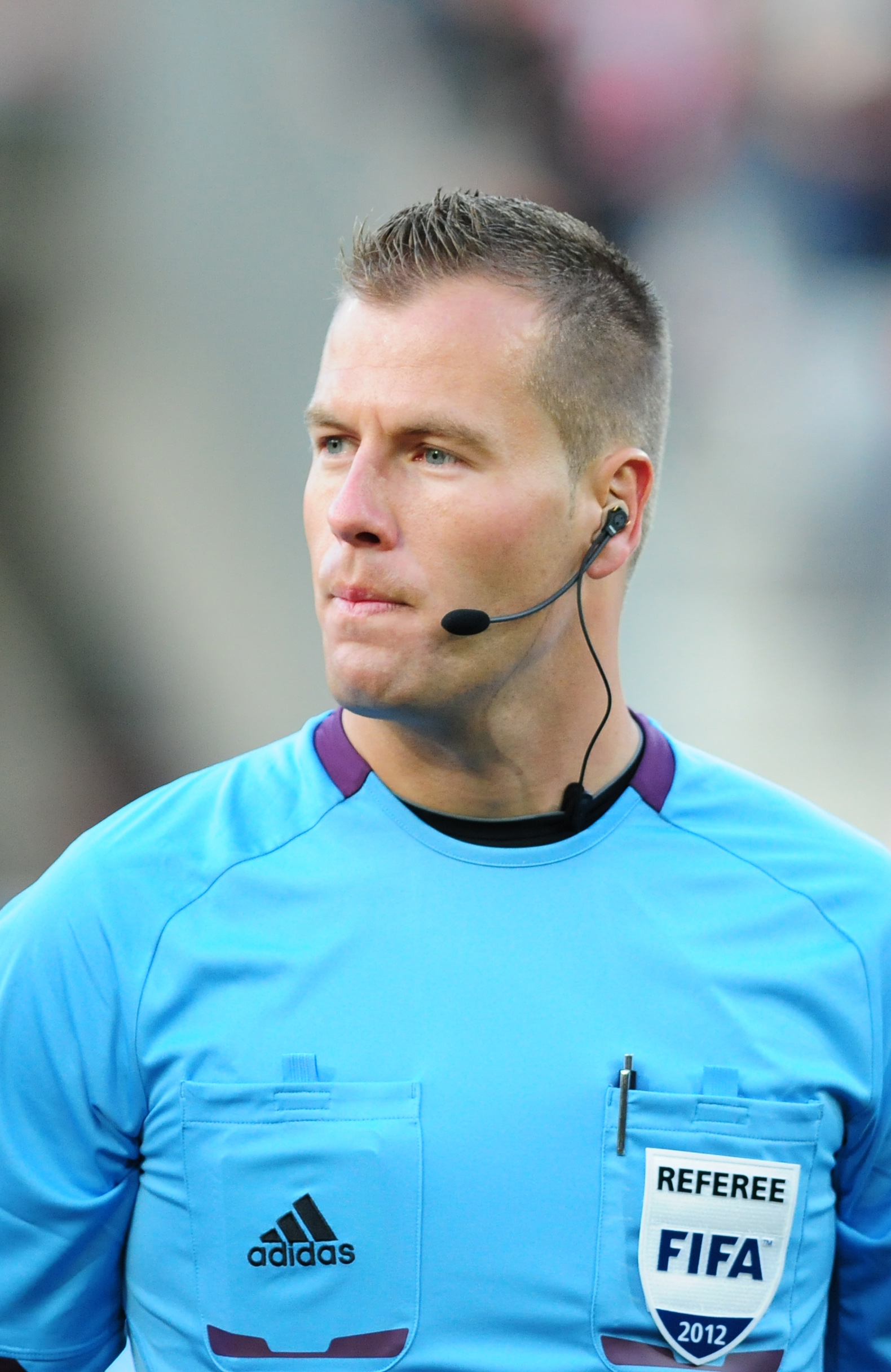 Exhibition game Austria vs. Romania at 5st. June 2012; referee Danny Makkelie (NL)